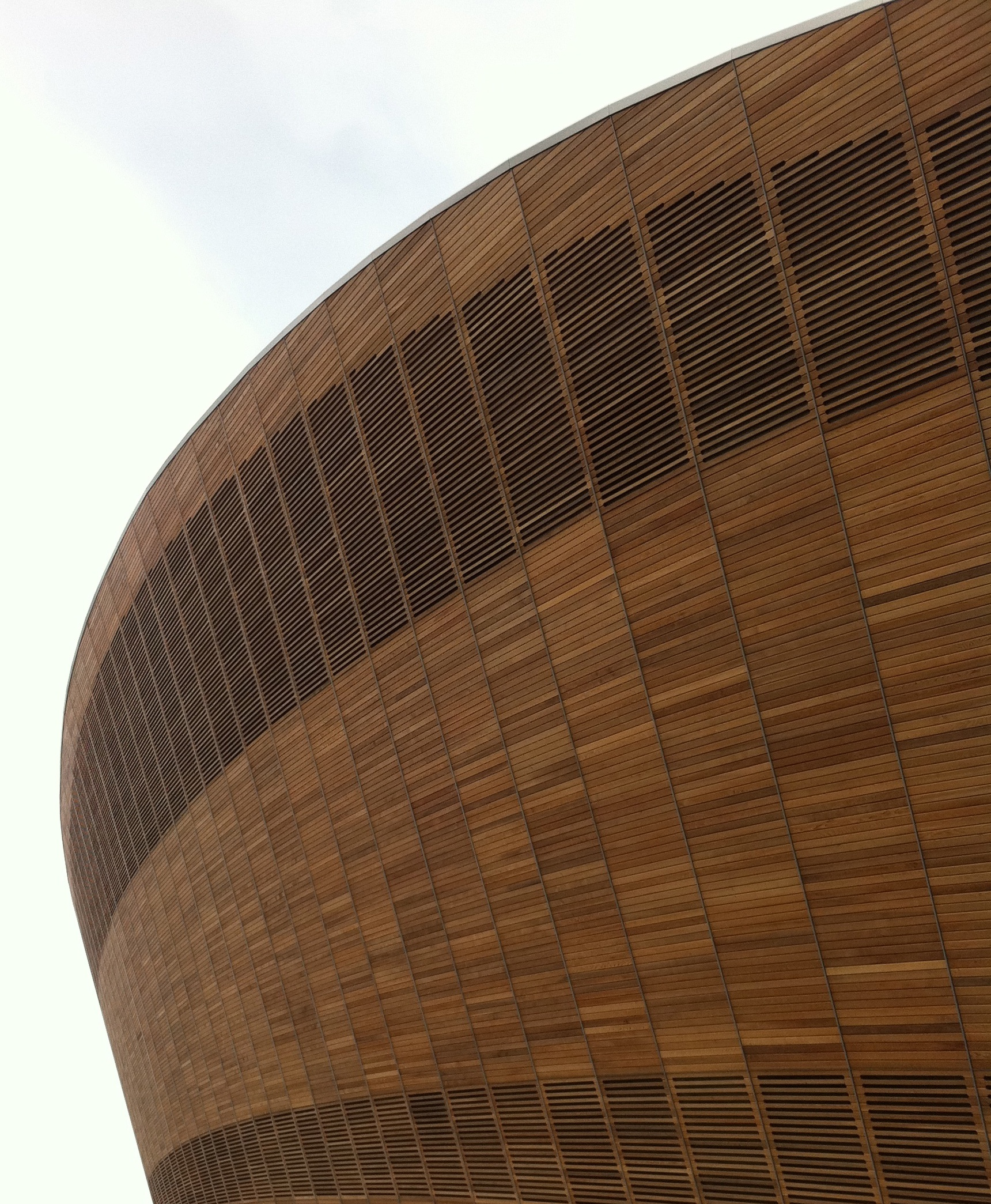 Detail of the wooden exterior of the Velodrome